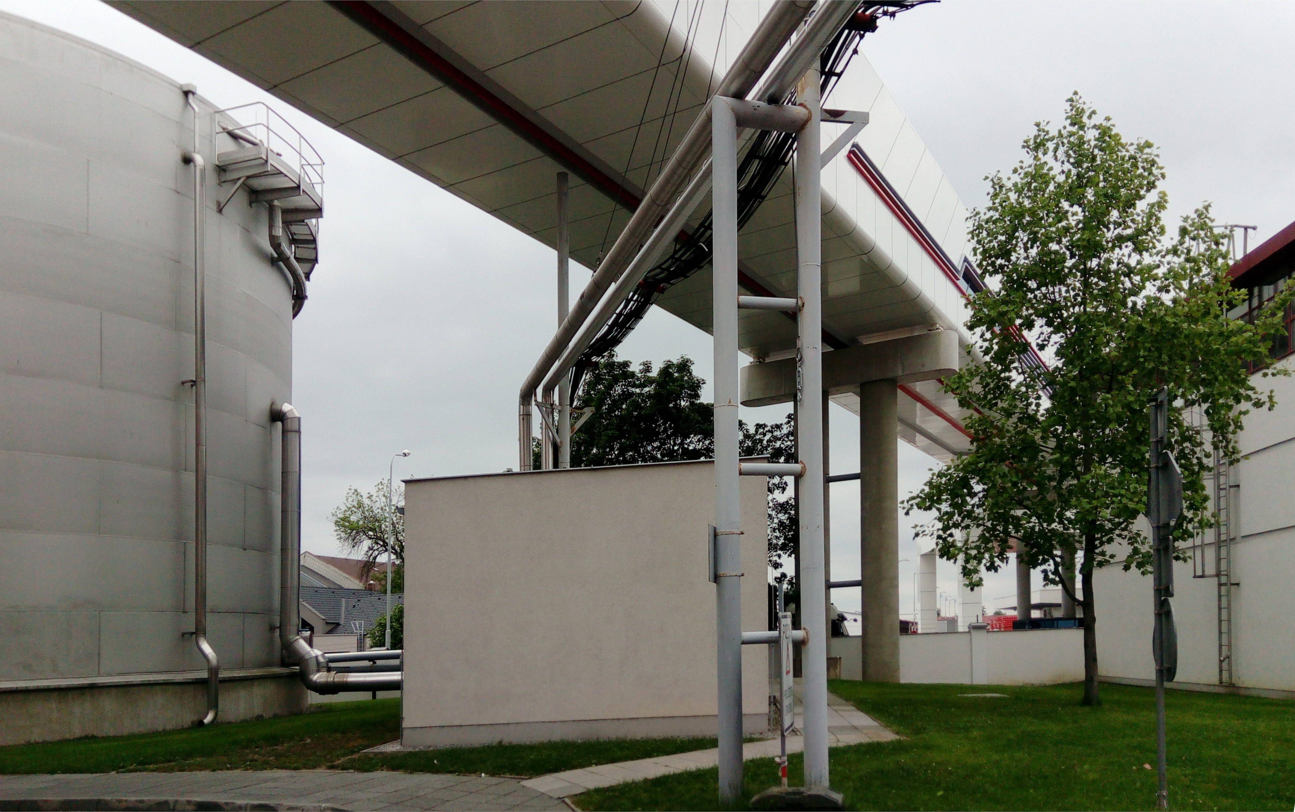 Technological bridge in Budějovický Budvar, a brewery in České Budějovice, South Bohemian Region, Czechia